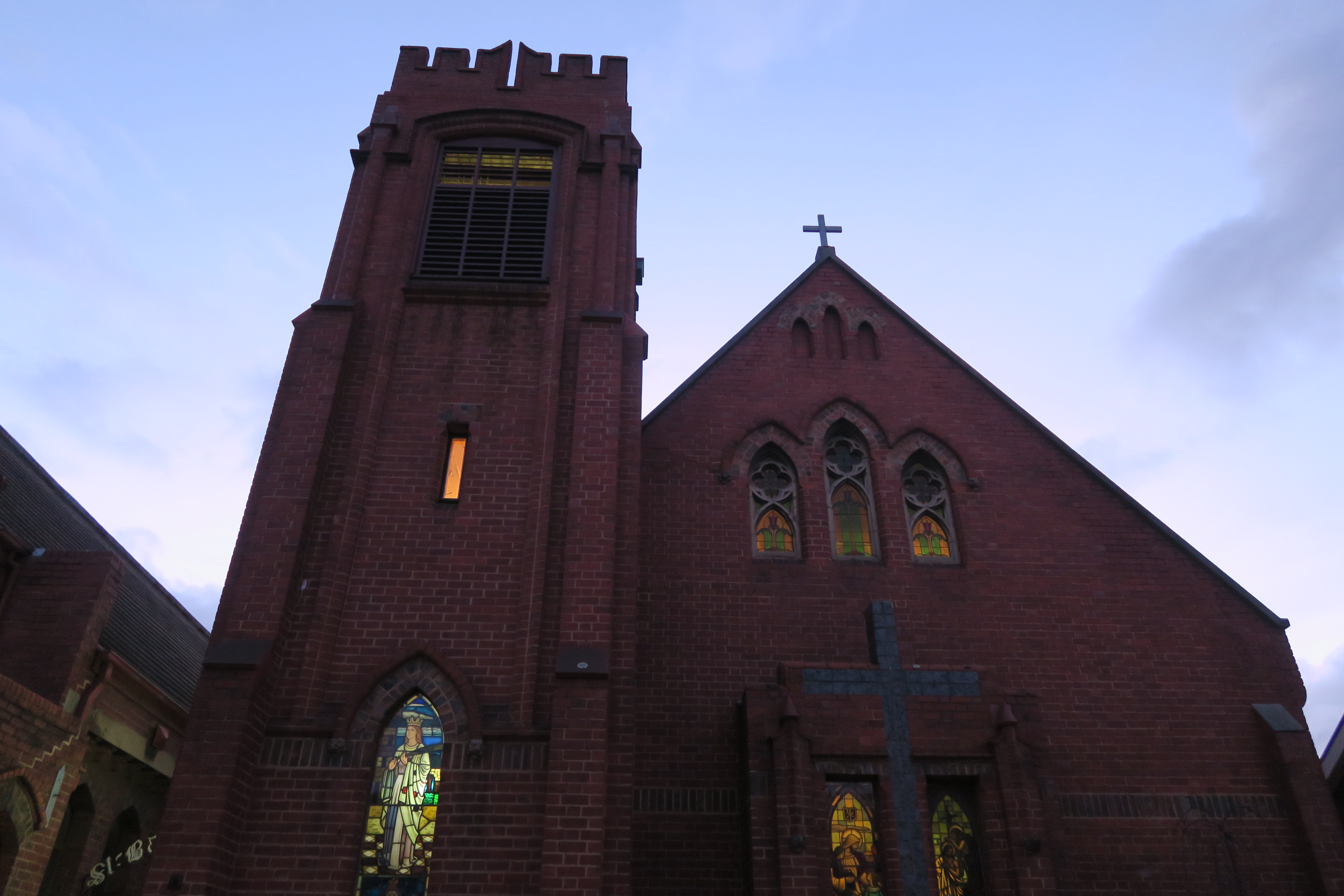 Evening light, St Bartholomew's Church, Burnley